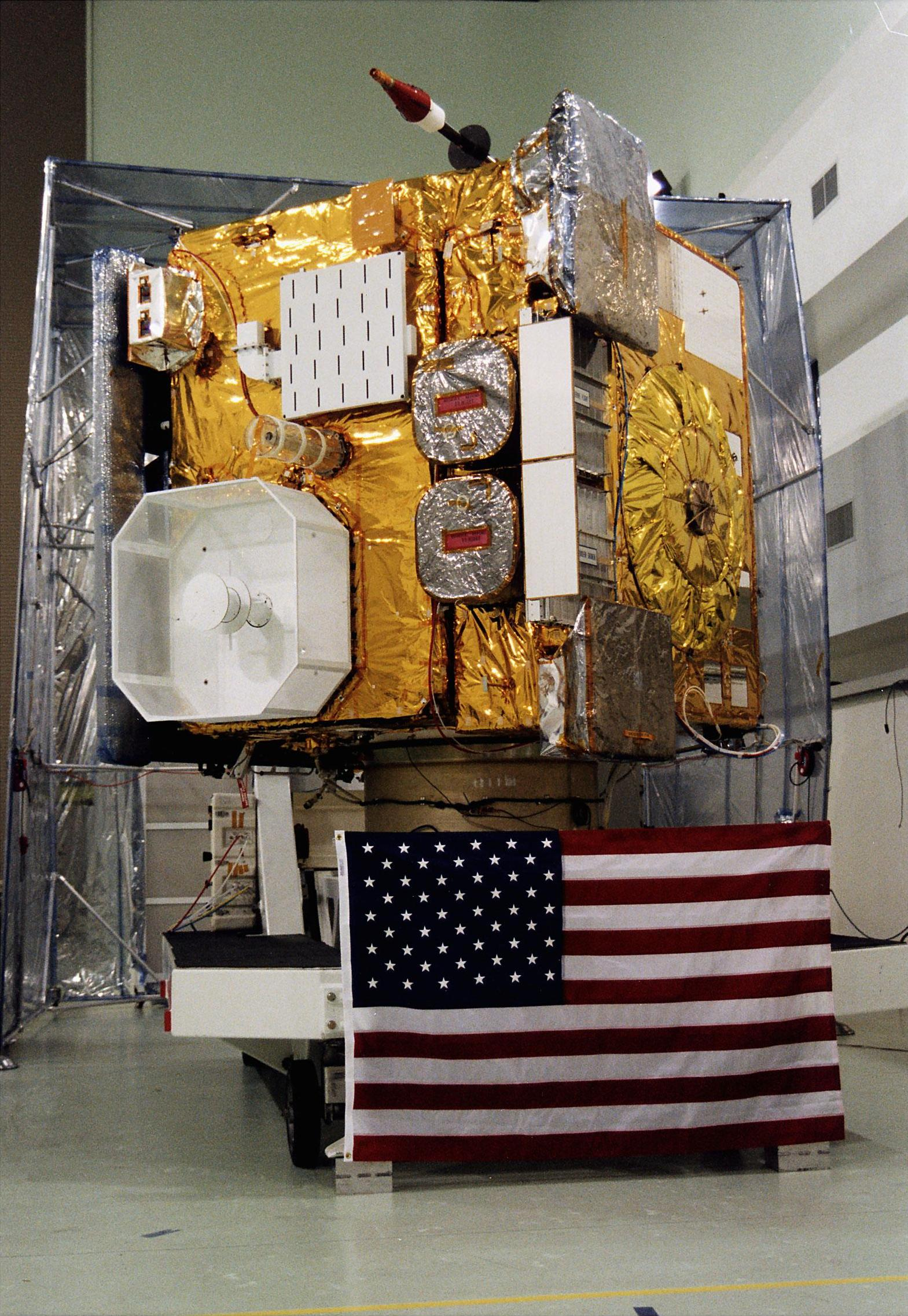 The Geostationary Operational Environmental Satellite-K (GOES-K) is placed on display for news media representatives at the Astrotech Space Operations LP facility in Titusville. GOES-K, the latest in the current series of advanced geostationary weather satellites in service, is scheduled to be launched into space aboard an Atlas 1 rocket on April 24 from Launch Complex 36, Pad B, Cape Canaveral Air Station. Once in orbit, GOES-K will become GOES-10, joining GOES-8 and GOES-9 in space